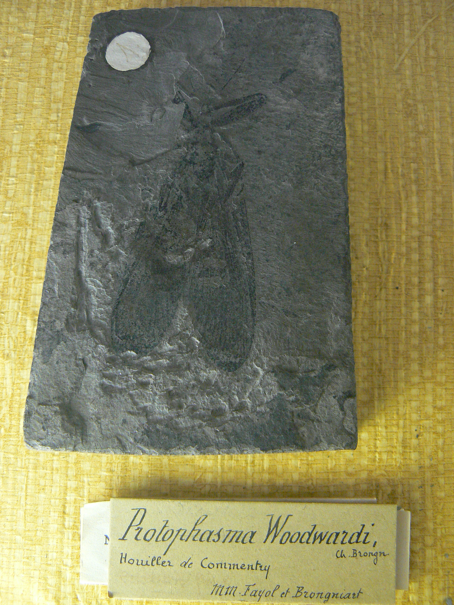 Protophasma woodwardi.